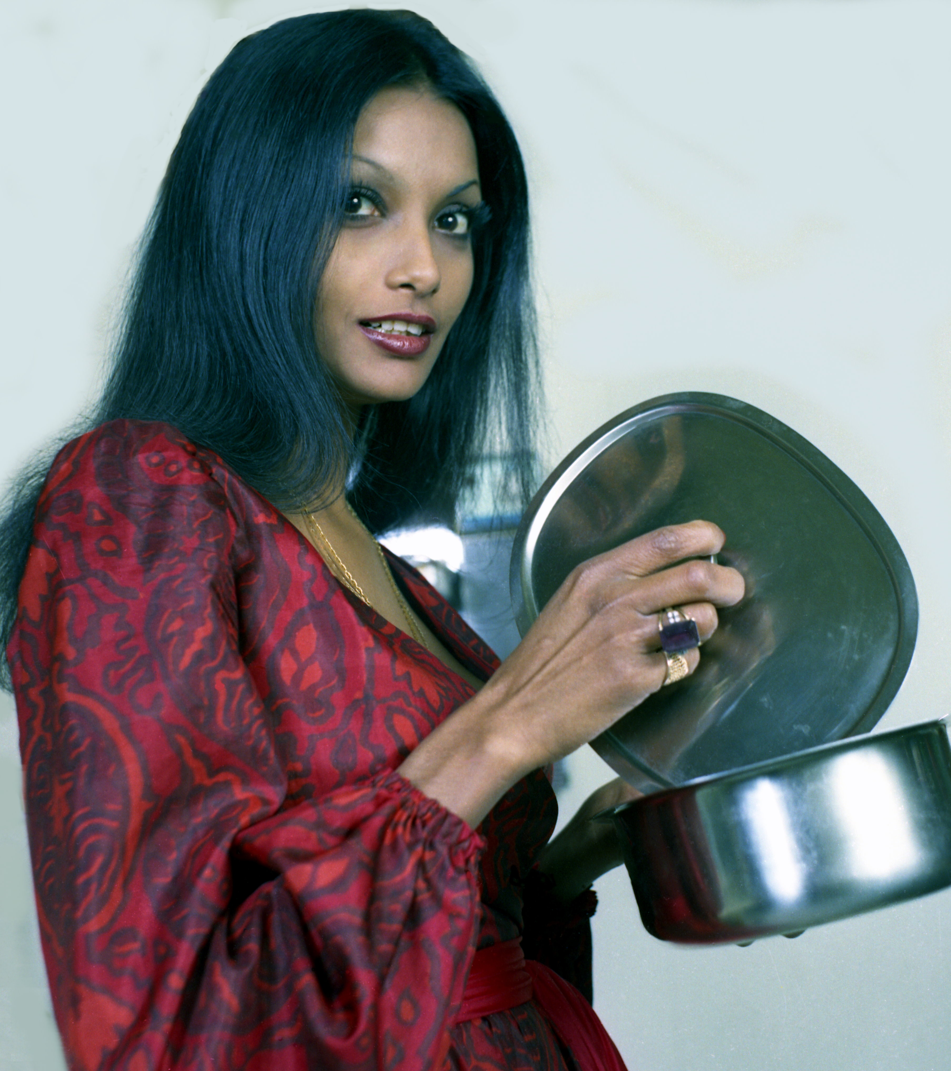 portrait of S C